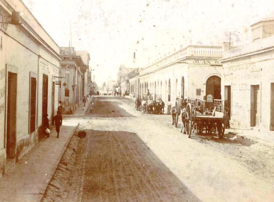 Entre Ríos, Concordia, fines del siglo XIX